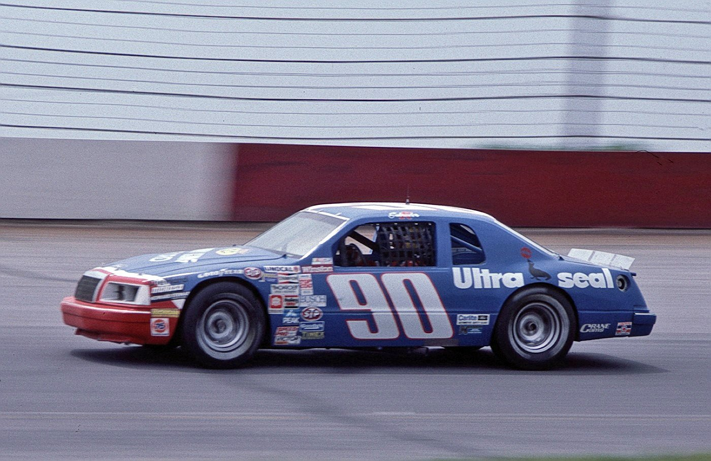 Ken Schrader's 1985 No. 90 Ford at Pocono Raceway.